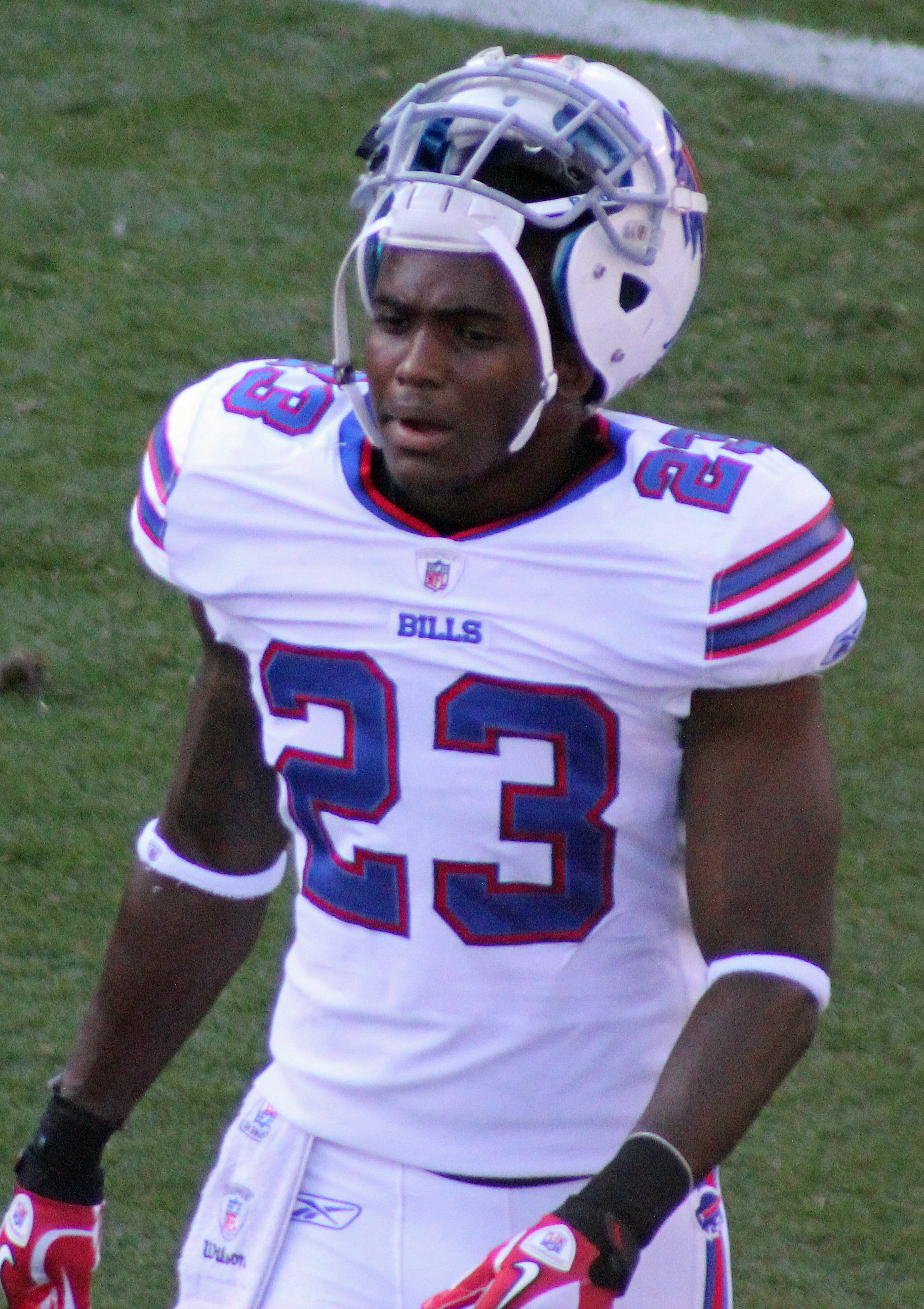 Aaron Williams, a National Football League player.